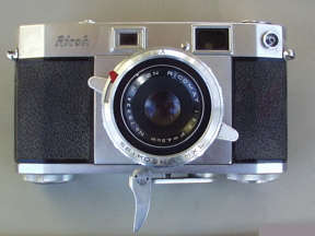 Front view of a Ricoh 500, 35 mm. rangefinder still camera.